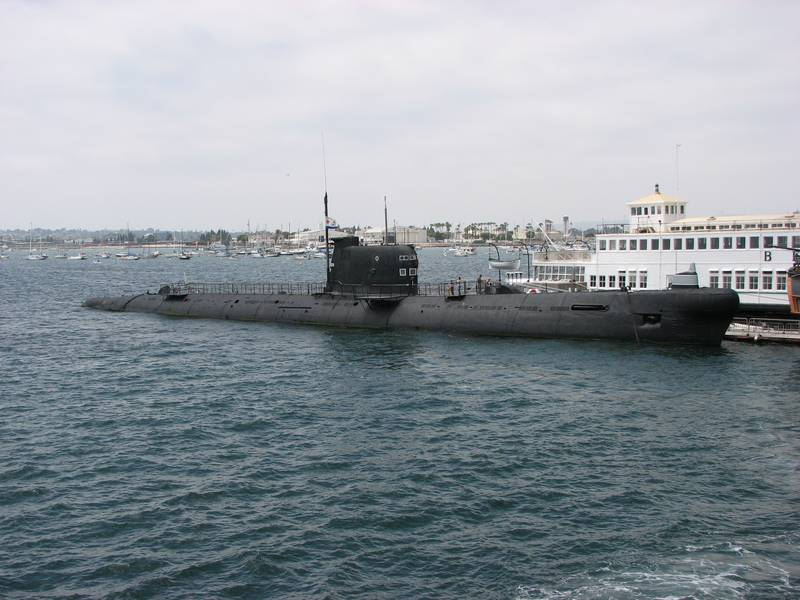 Russian Foxtrot Class Submarine B-39